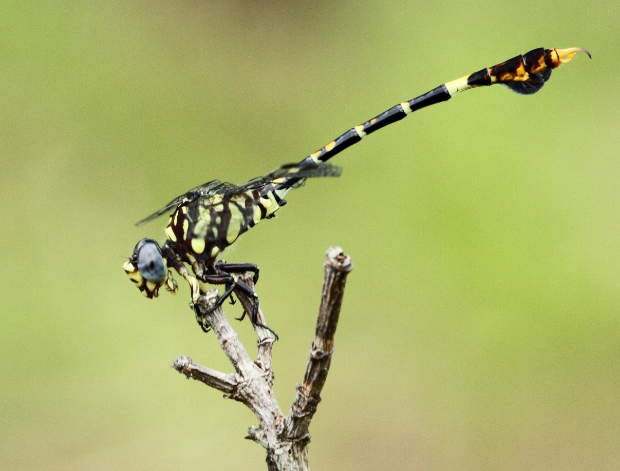 Male Sabi Hooktail (Paragomphus sabicus) at Harold Johnson Nature Reserve, KwaZulu-Natal, South Africa